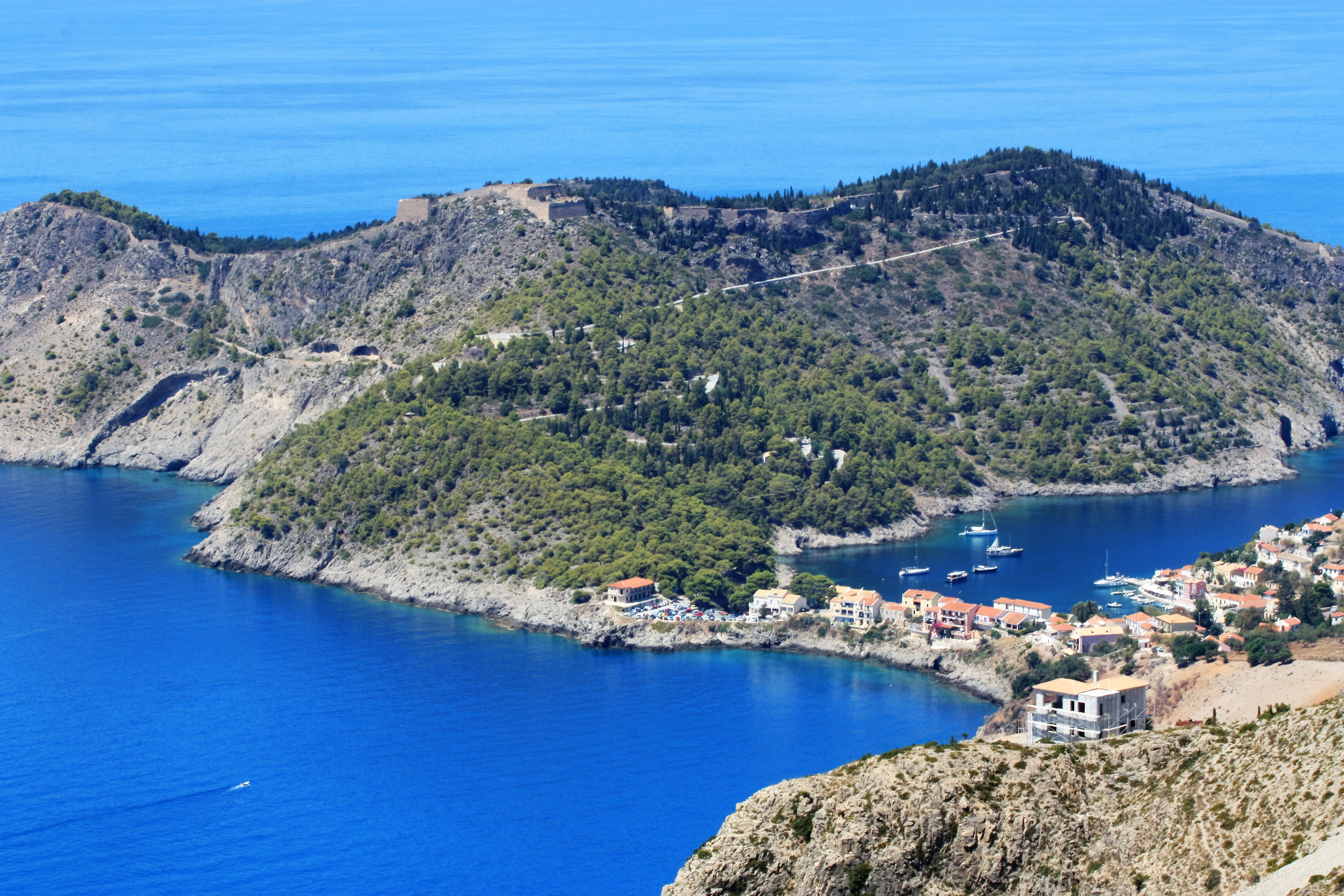 The Asos peninsula and castle on the Greek island of Cephalonia, in the Ionian Sea.